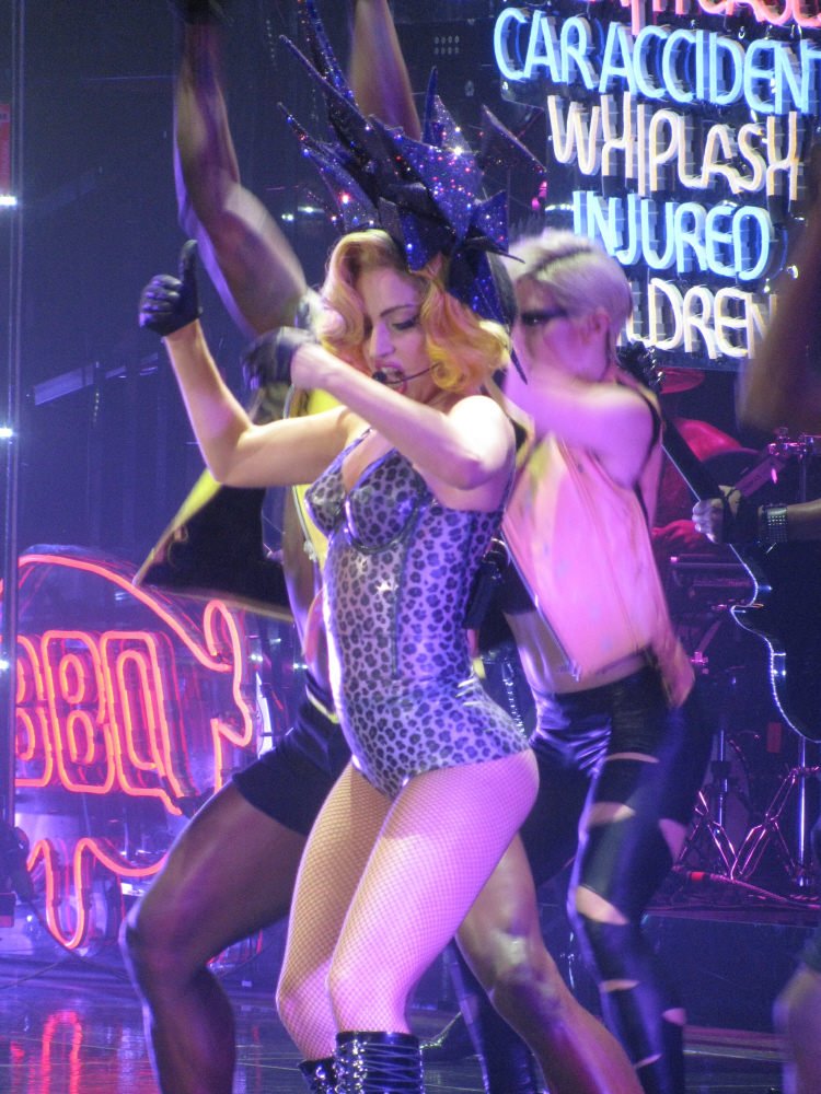 Lady Gaga performing "Beautiful, Dirty, Rich" on The Monster Ball Tour.